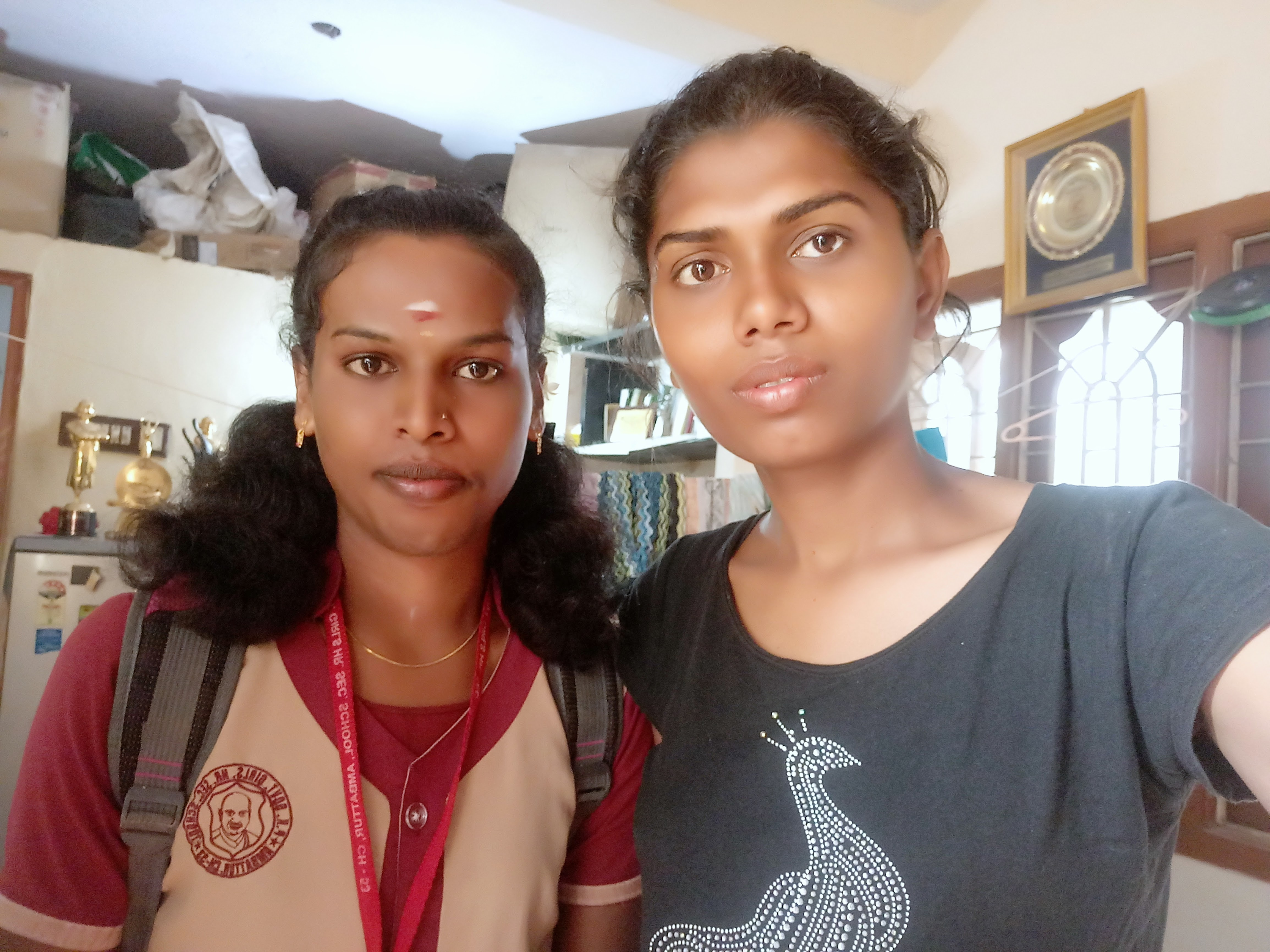 Tharika Banu With Grace Banu When she was in school student